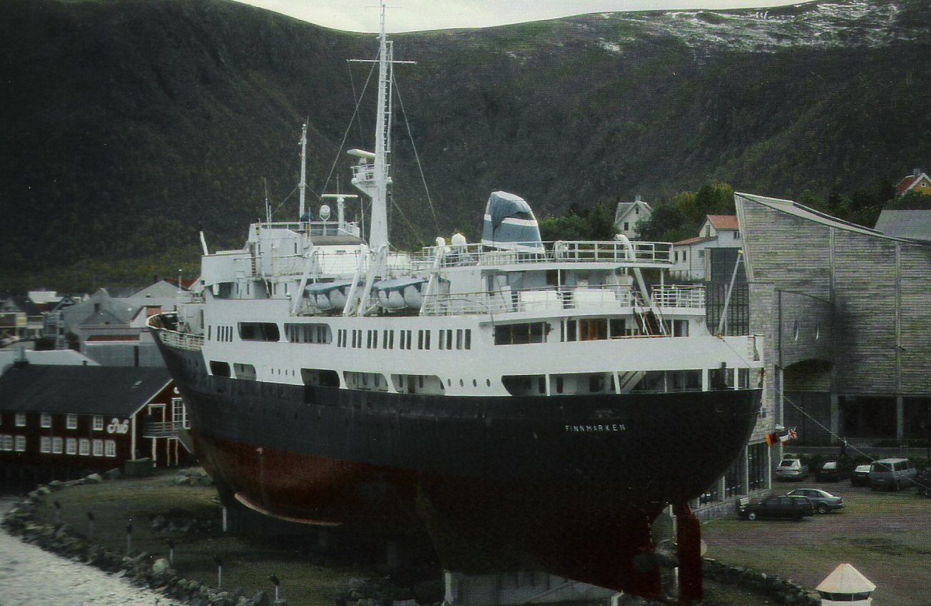 own work, taken at Stokmarknes (Norway); October 2001 by ERWEH